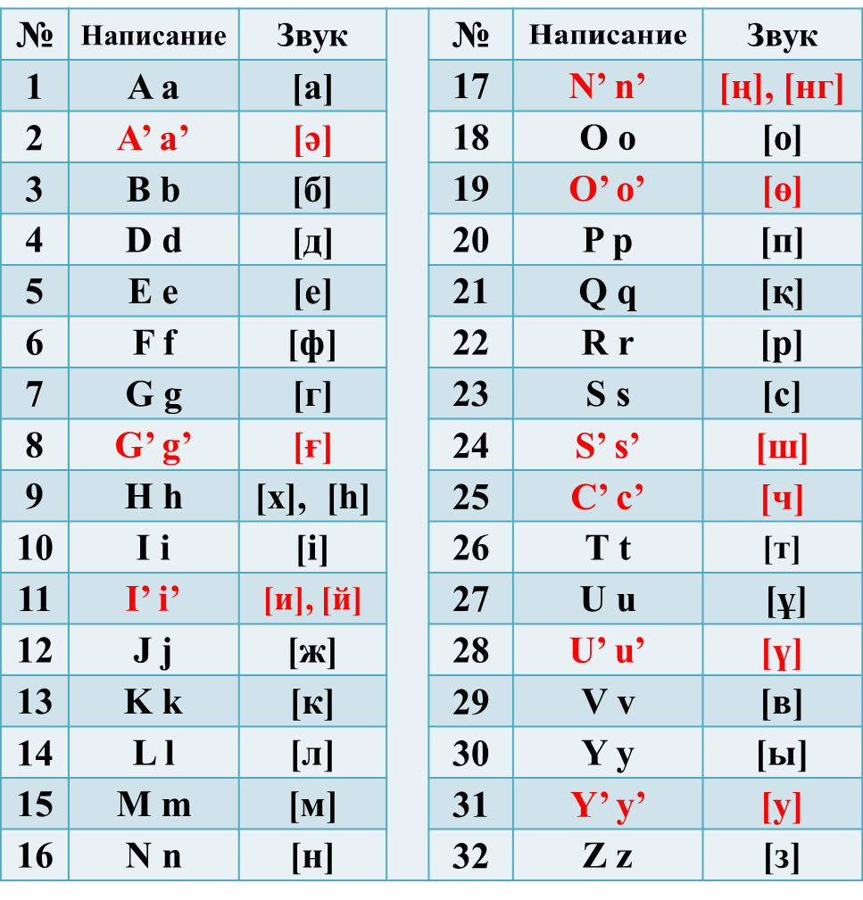 Table of the Latin alphabet for the Kazakh language, according to decree #569 of the President of Kazakhstan of 26 October 2017